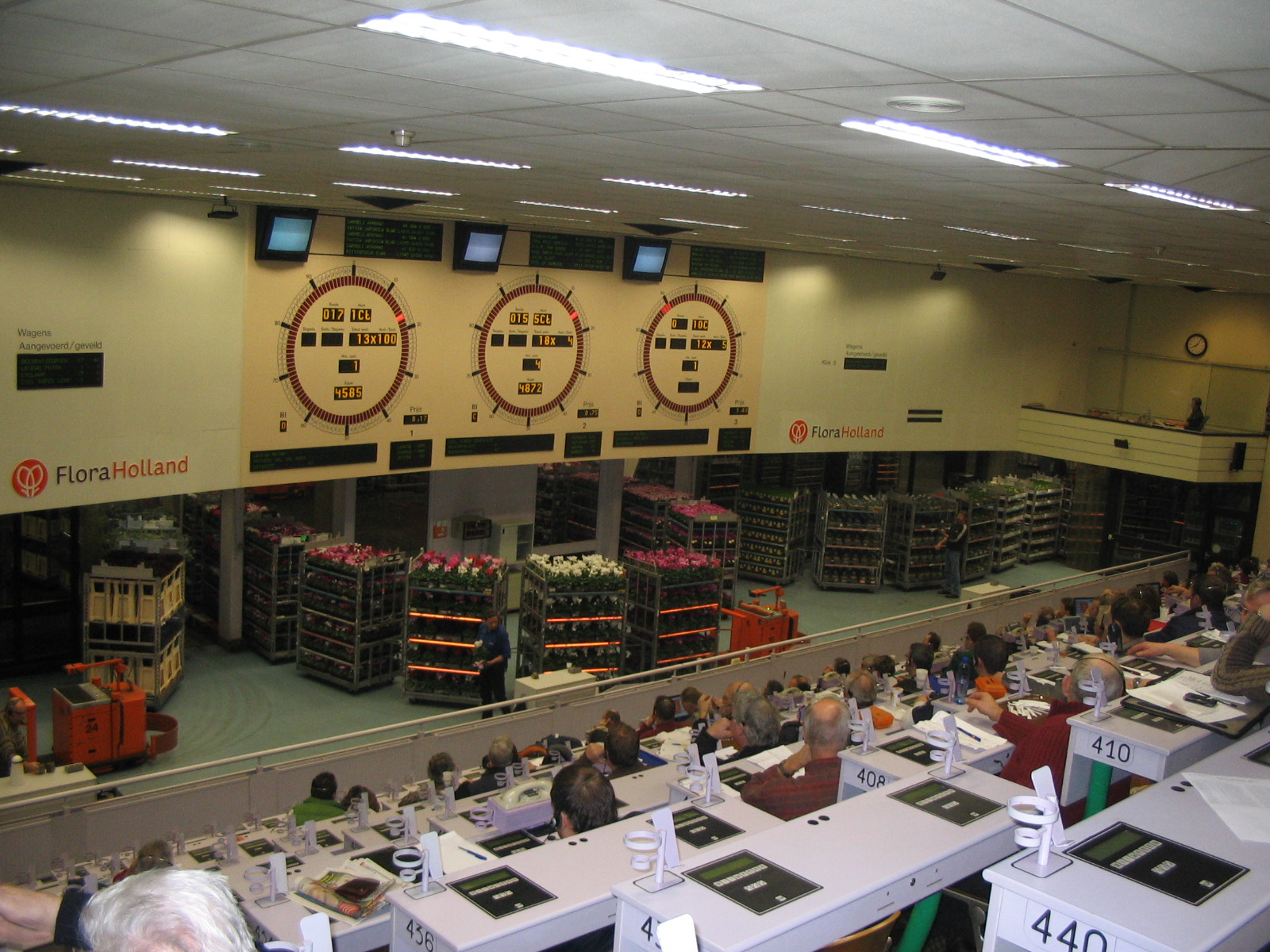 De drie veilingklokken van FloraHolland, Bleiswijk